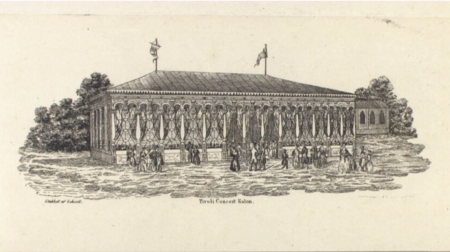 The first concert hall in Yivoli Gardens in Copenhagen, Denmark